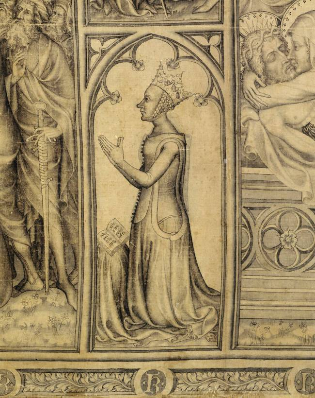 Joanna of Bourbon.